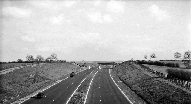 M1 Motorway. Southward on M1 Motorway just northward of later site of Toddington Services - early days, almost no traffic!